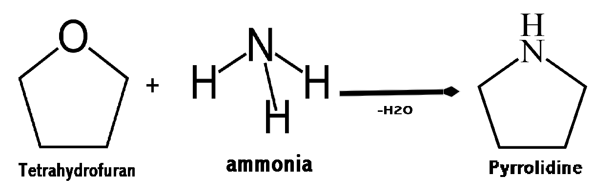 Synthesis of pyrrolidine from tetrahydrofuran